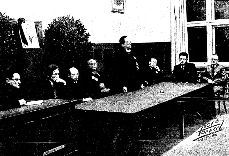 Mourning ceremony of Matatiahu Szohem